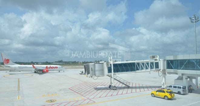 Sultan Thaha Airport, Jambi, Indonesia